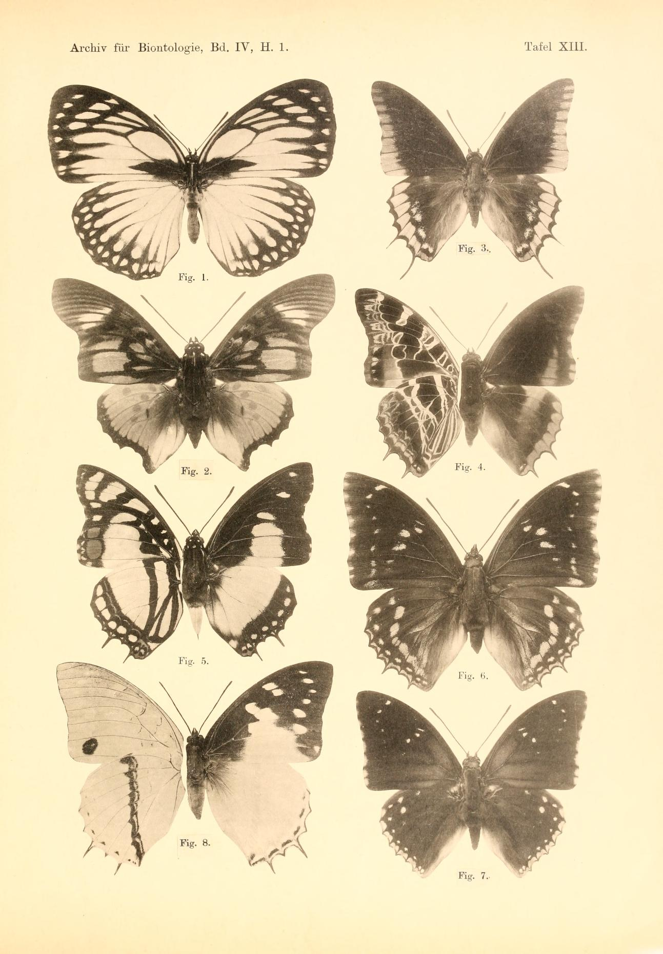 Arnold Schultze, 1917 Die charaxiden und apaturiden der kolonie Kamerun : eine zoogeographische und biologische studie / von Arnold Schultze. Mit tafel IX-XIV, 1 karte und 2 textfiguren.Berlin,Gesellschaft Naturforschender Freunde zu Berlin,1916 1 Euxanthe crossleyi Ward 2 Charaxes acraeoides Druce 3 Charaxes jasius L. 4 Charaxes eudoxus var. mechowi Rothschild 5 Charaxes nobilis Druce 6 Charaxes bubastis Schultze synonym for Charaxes mixtus Rothschild, 1894 7 Charaxes bipunctatus Rothschild 8 Charaxes hadrianus Ward